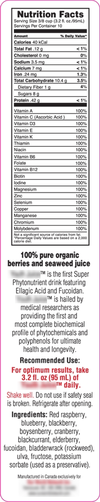 nutritional label of a polyphenol rich drink with blurred trade mark